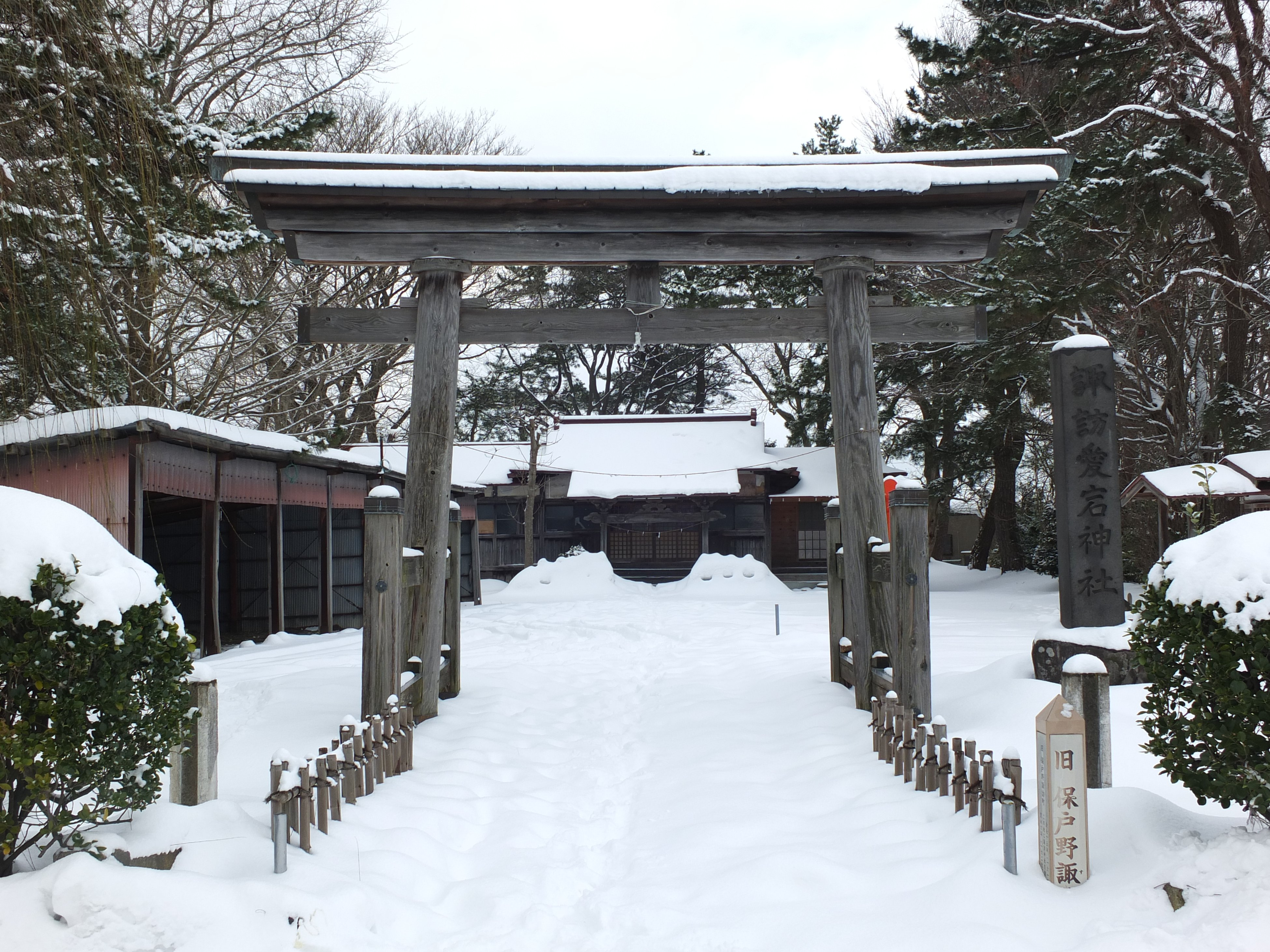 Suwa Atago zinzya (Shrine) at Hodonosuwatyou, Akita city, Akita prefecture, Japan.